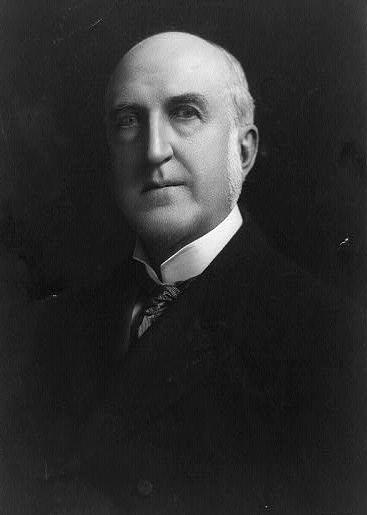 Photograph of Chauncey Depew.